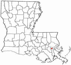 Volapük: Komot: Jefferson in tat: Louisiana.